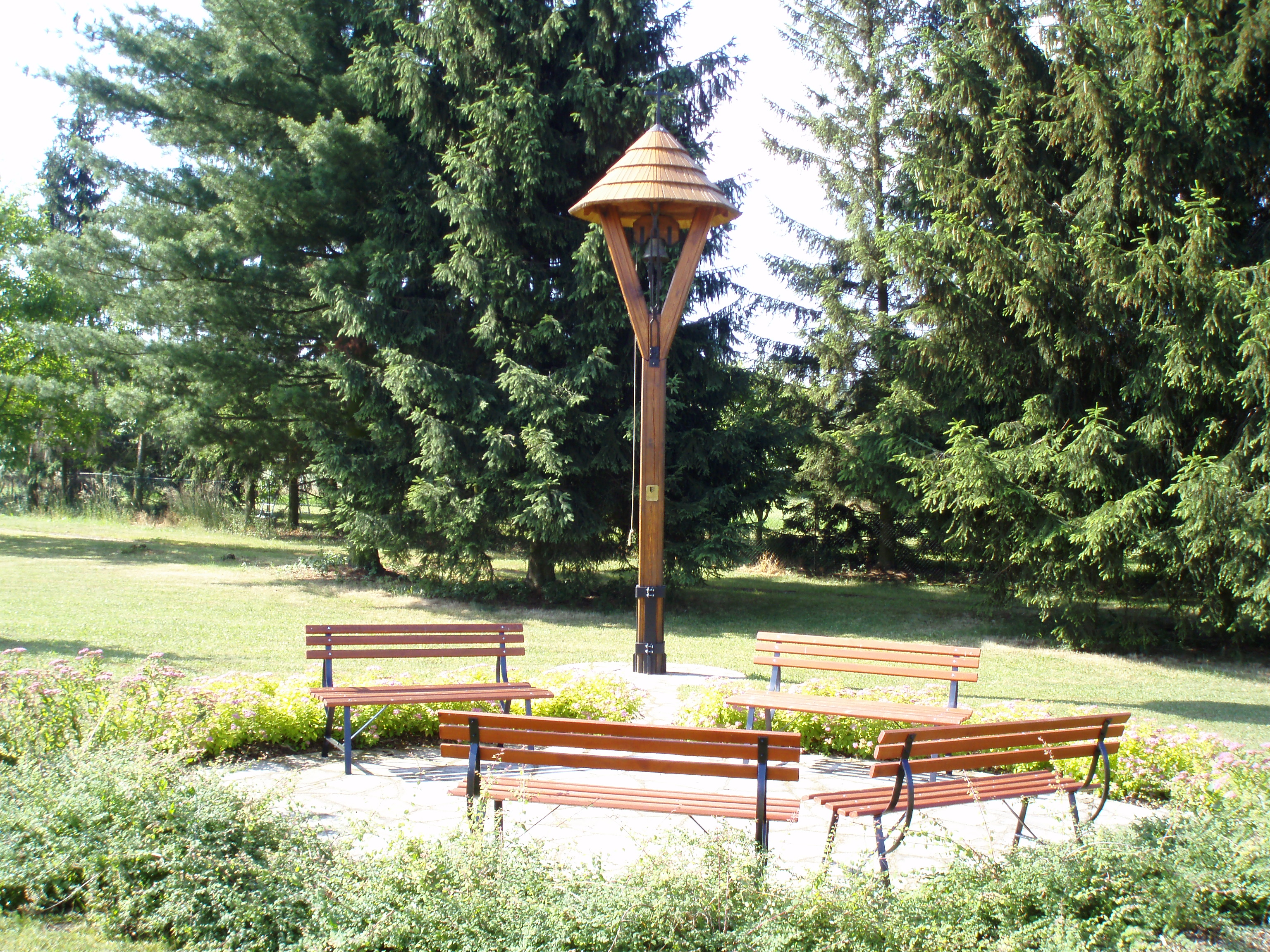 Belfry in Radikovice (District of Hradec Kralove, CZ)